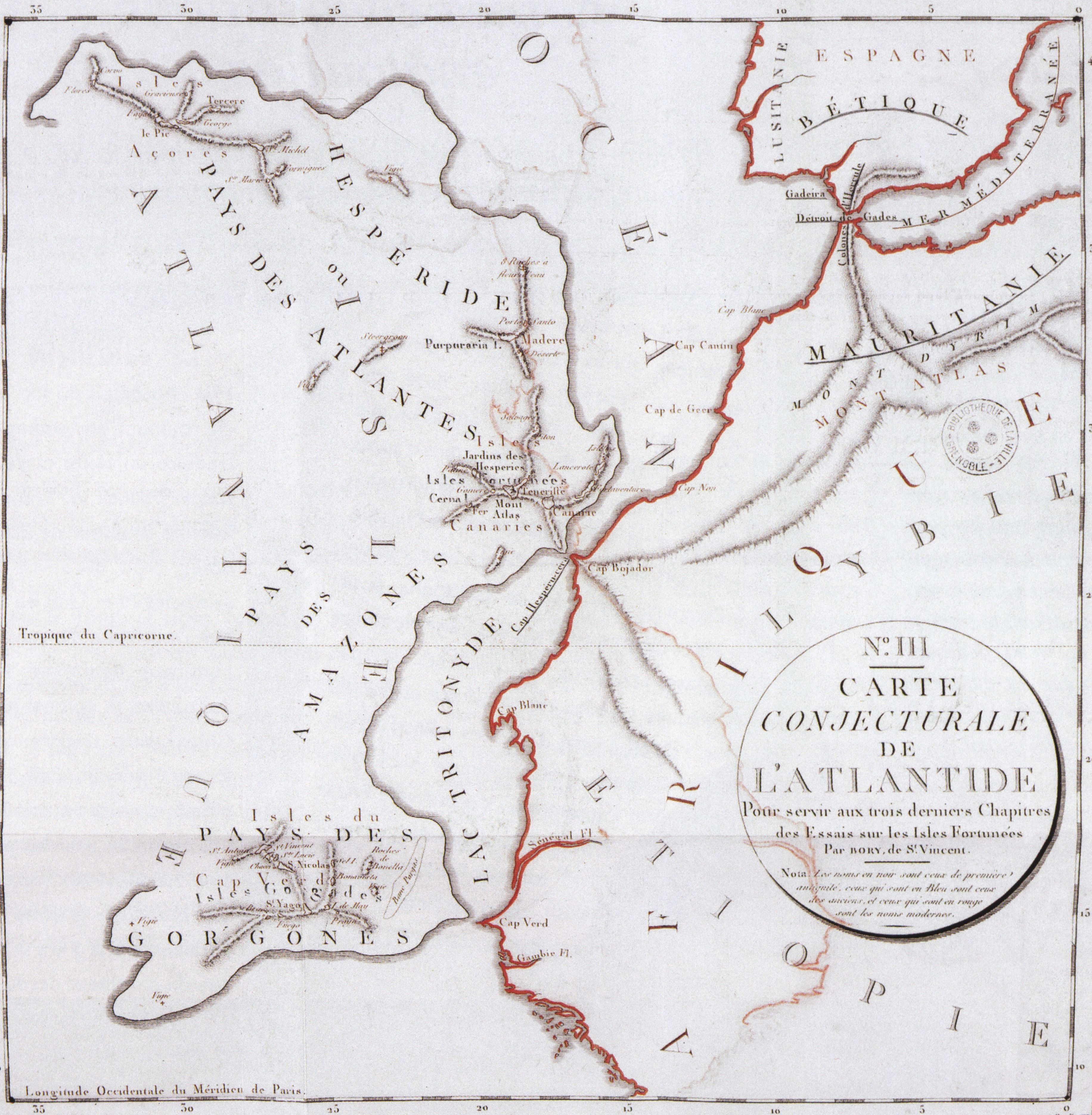 A map of Atlantis by Bory de Saint-Vincent in 1803